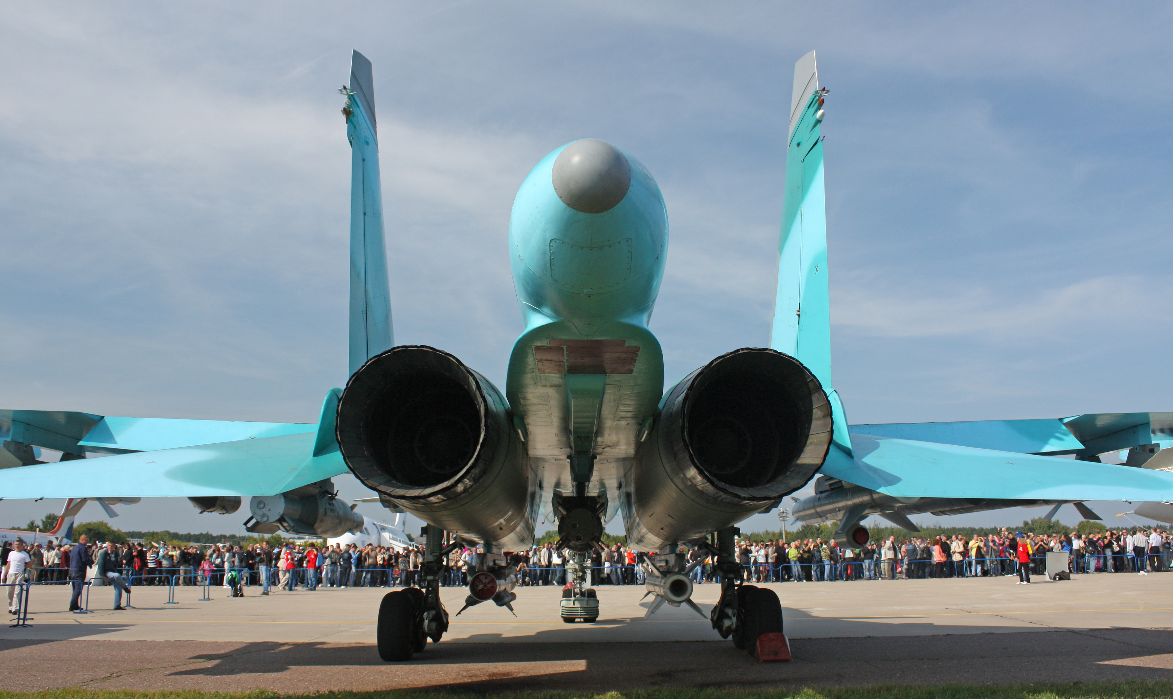 Sukhoi Su-34 (The international aerospace salon MAKS-2009)